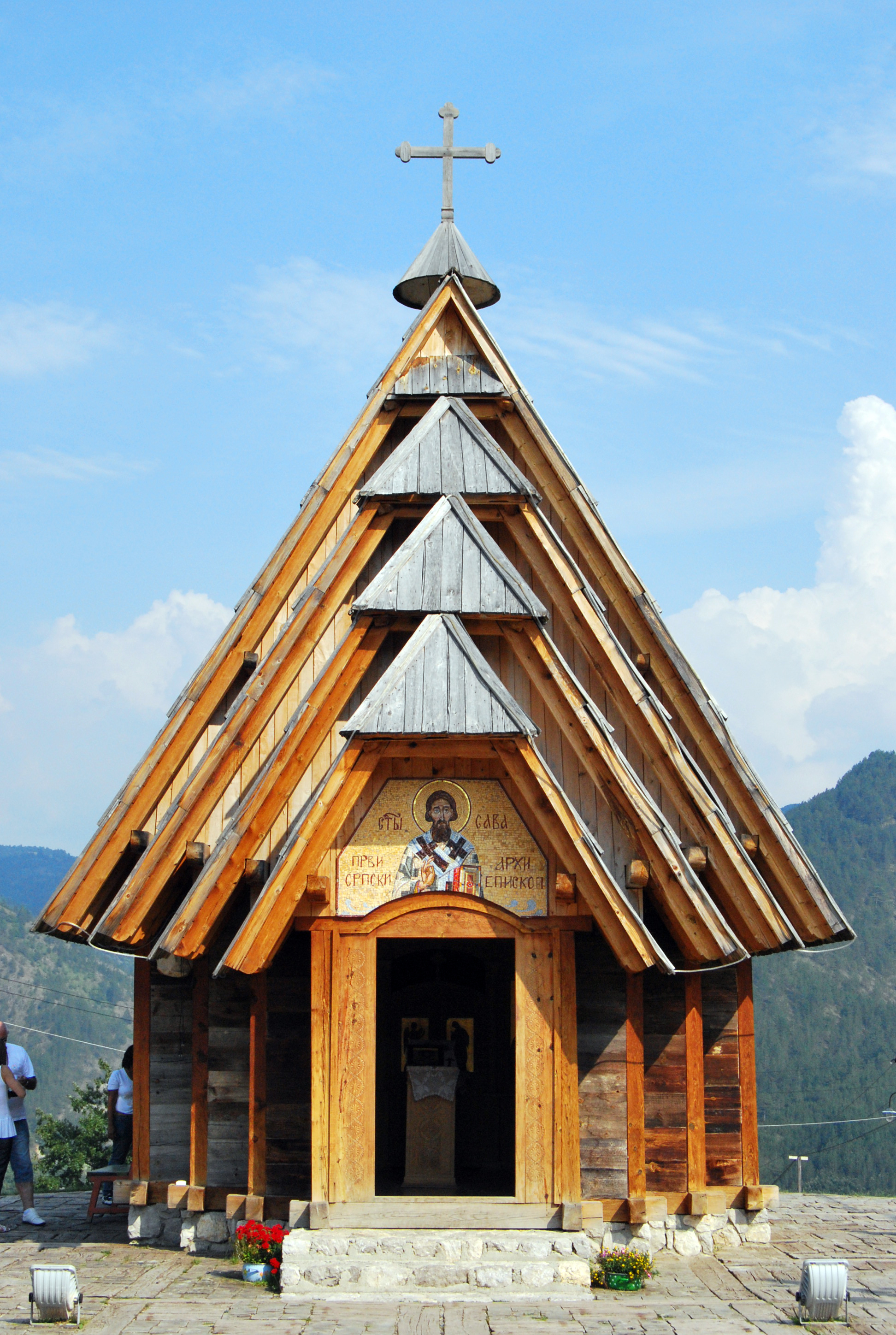 Wooden serb orthodox church in Drvengrad ethno village.